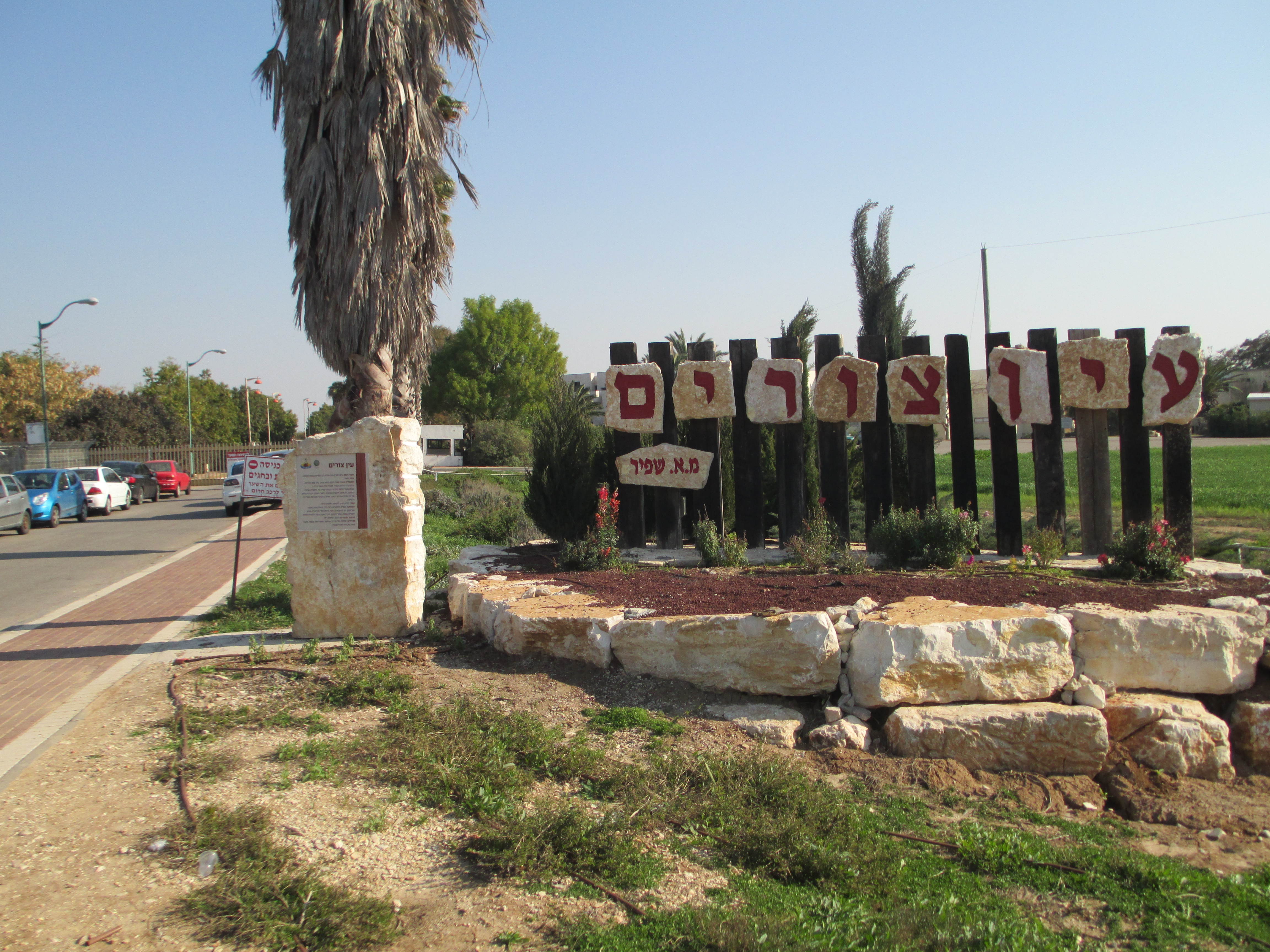 The entrance to Kibbutz Ein Tsurim